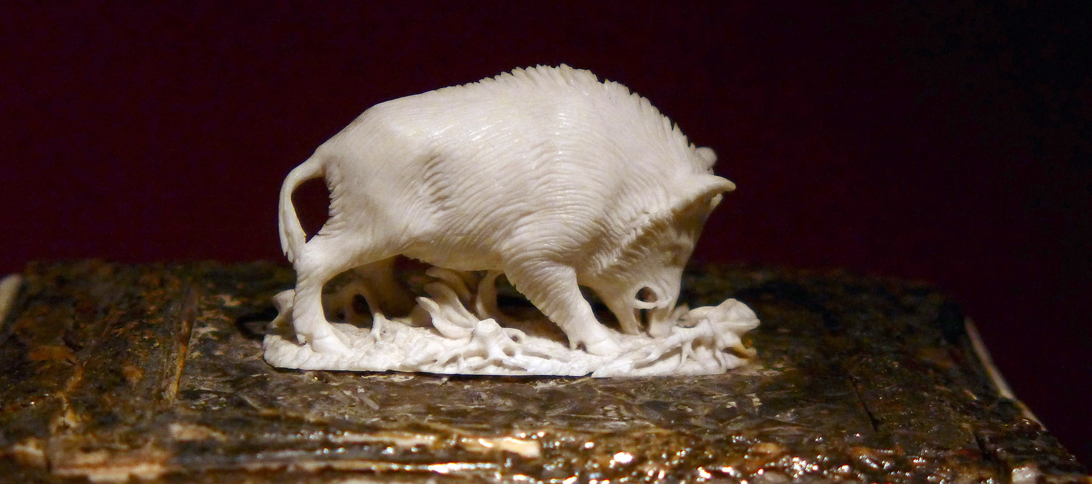 Exhibit in the ivory museum Erbach, Germany